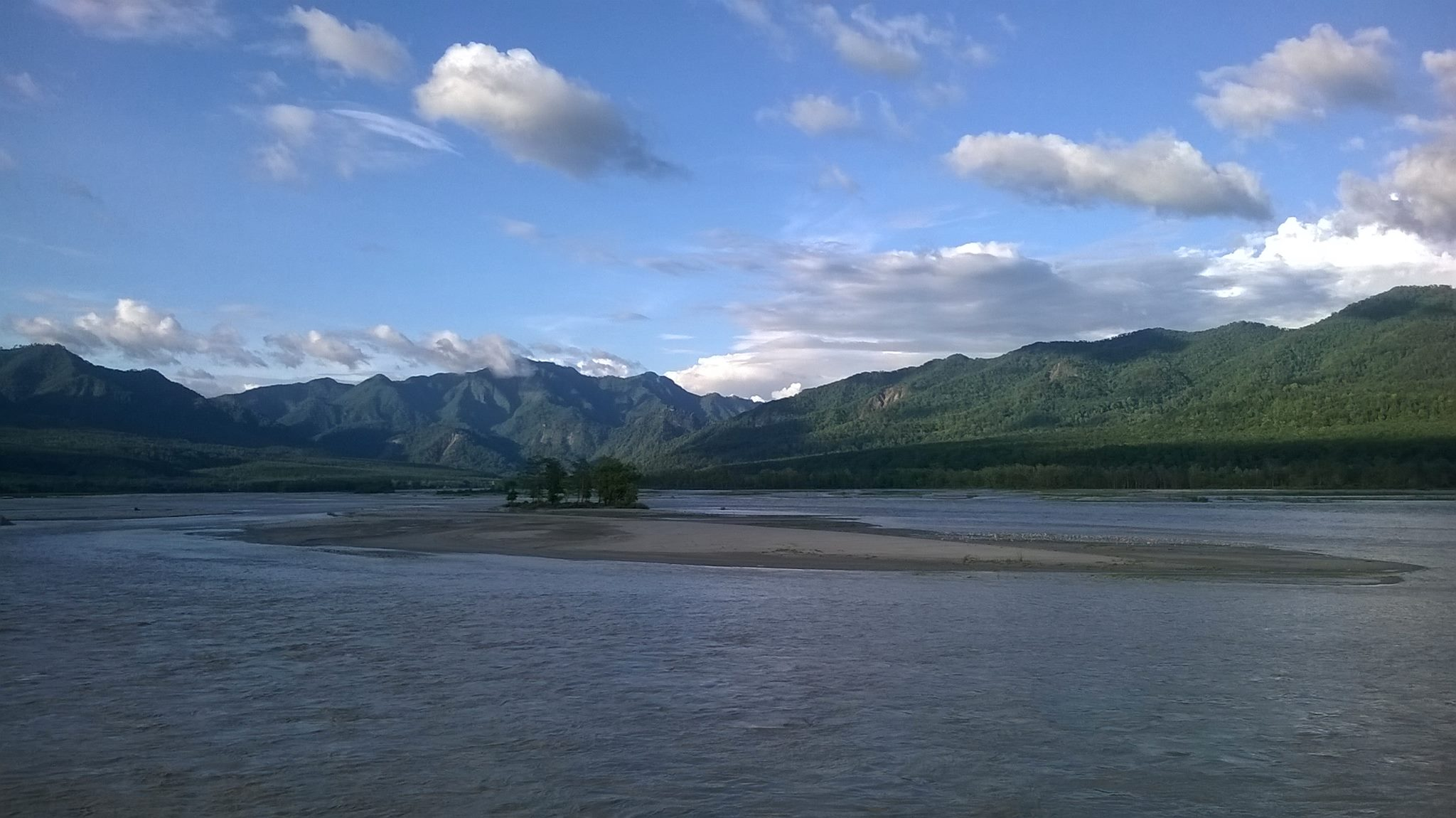 Photo is taken from India. There is Nepal in the right side and Purnagiri hills in rhe mid and other Shivalik himalaya in the left.